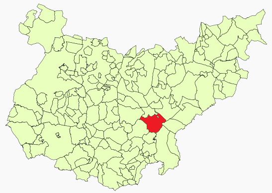 Campillo de Llerena